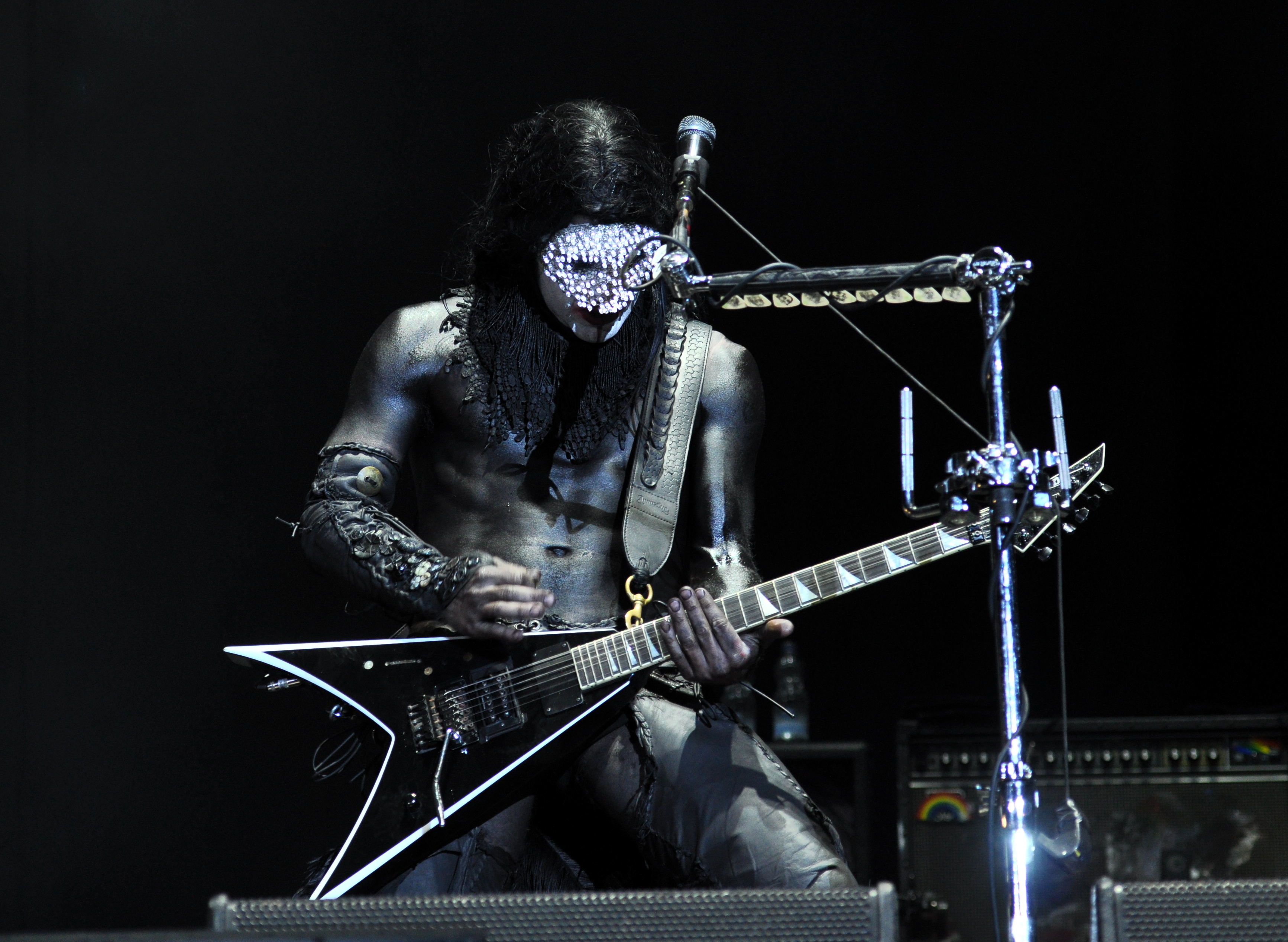 Wes Borland of Limp Bizkit at Rock am Ring 2013